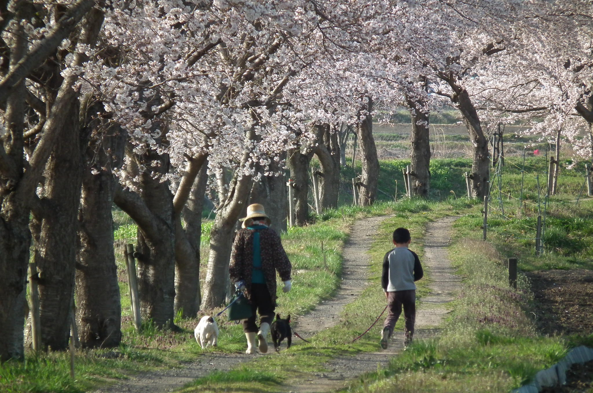 Walk under the cherry tree Muko-River